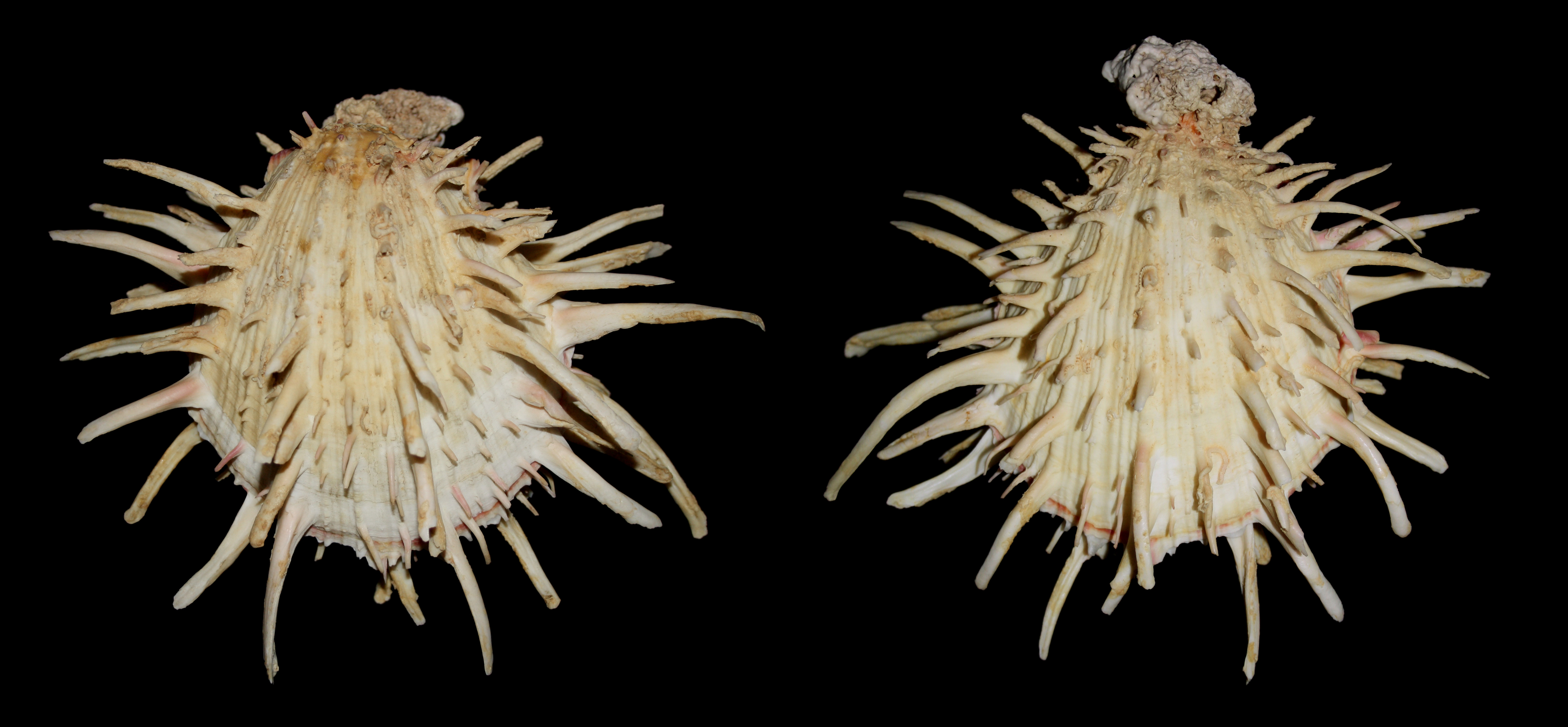 Spondylus americanus Hermann, 1781, Florida USA, 18 cm width. acquired 1983.